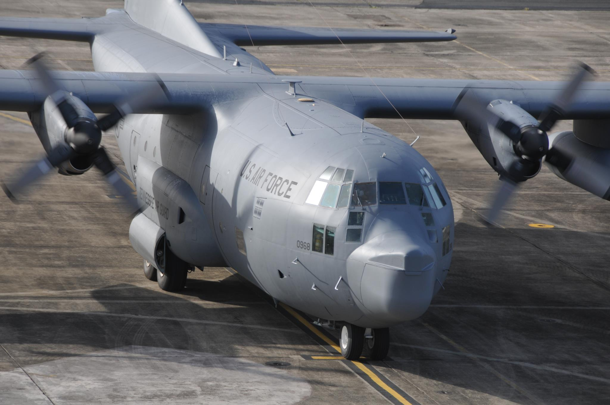 US Air Force - US Air National Guard - Puerto Air National Guard - (65-0968) - July 3 2012 WC130H Arrival to 156AW PA-1 (formerly with the Tennessee Air National Guard and still on the markings as Tennessee Air National Guard